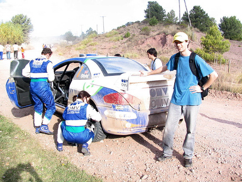 Manfred Stohl and his co-driver Ilka Minor changing a tyre before SS8 of the 2006 Rally Argentina.